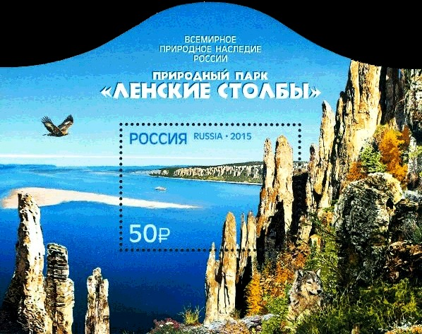 World Natural Heritage of Russia - Natural Park "Lena Pillars"